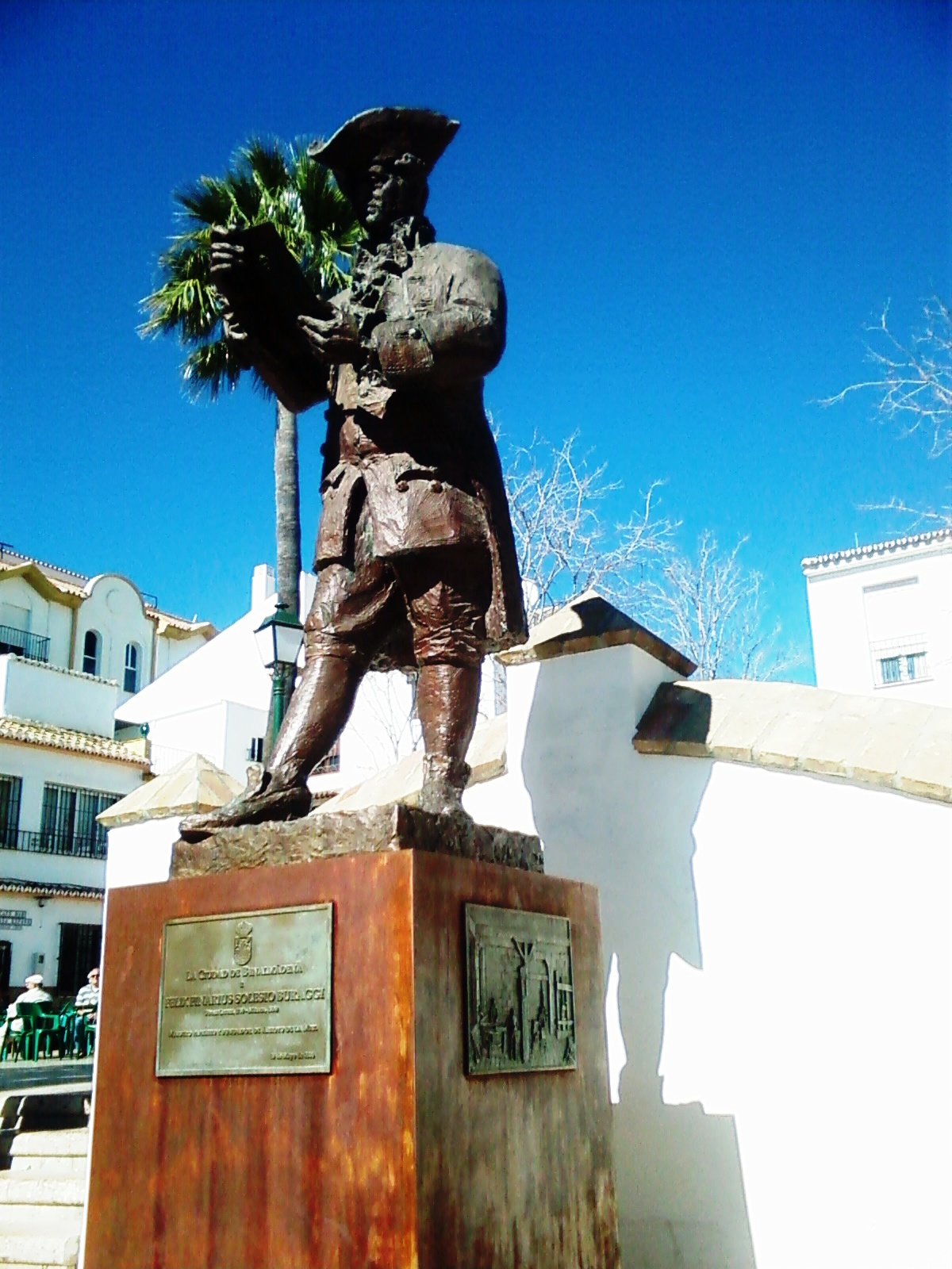 Felix Solesio sculpture in Spain's Square Arroyo de la Miel, Benalmádena, Málaga, Spain